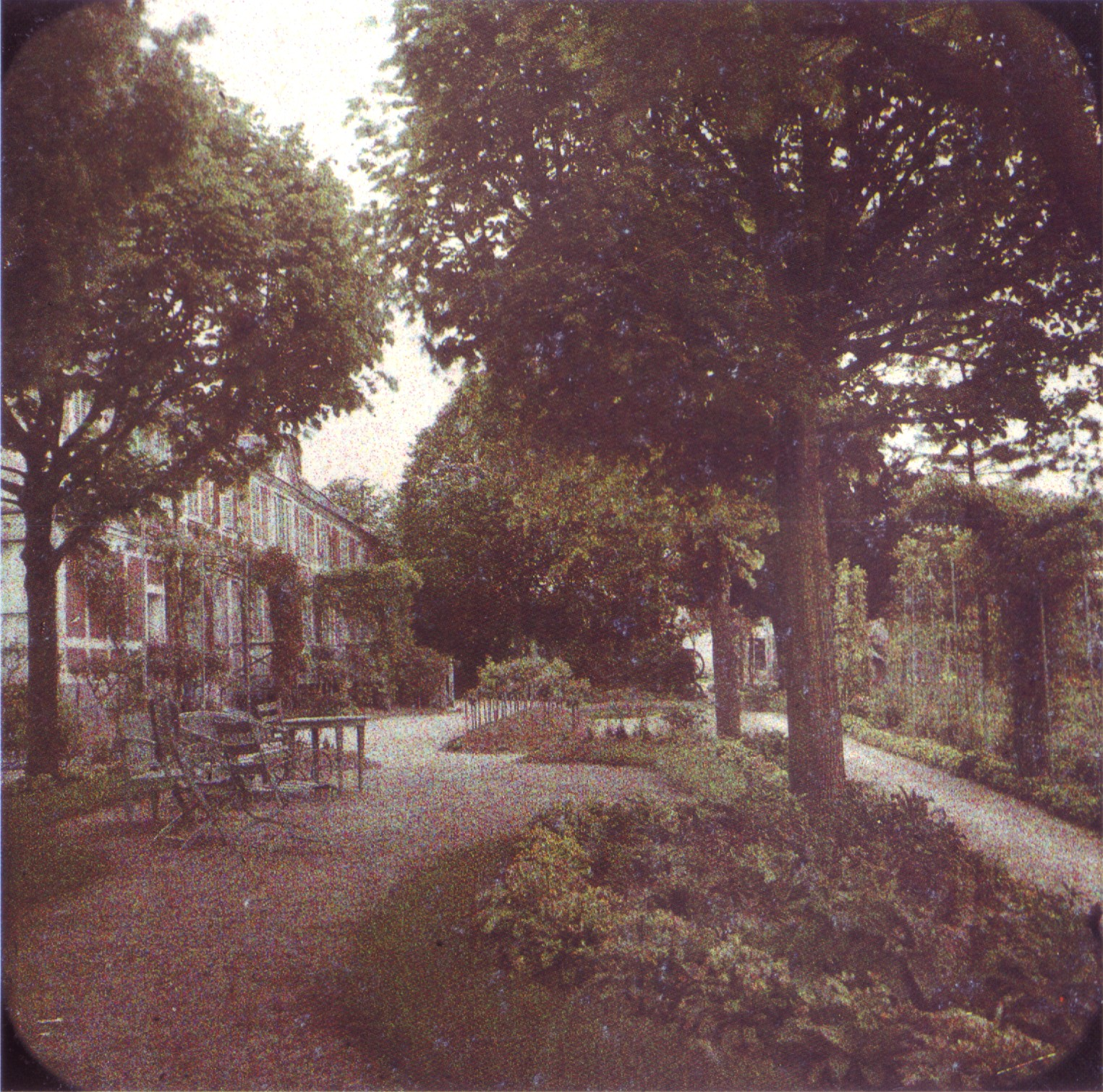 Monet and his gardens